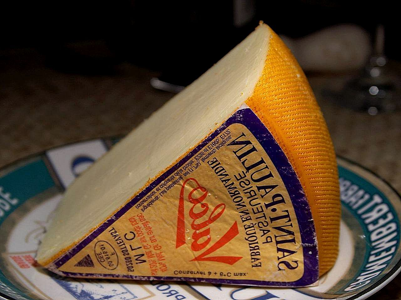 Image title: Saint Paulin cheese Image from Public domain images website